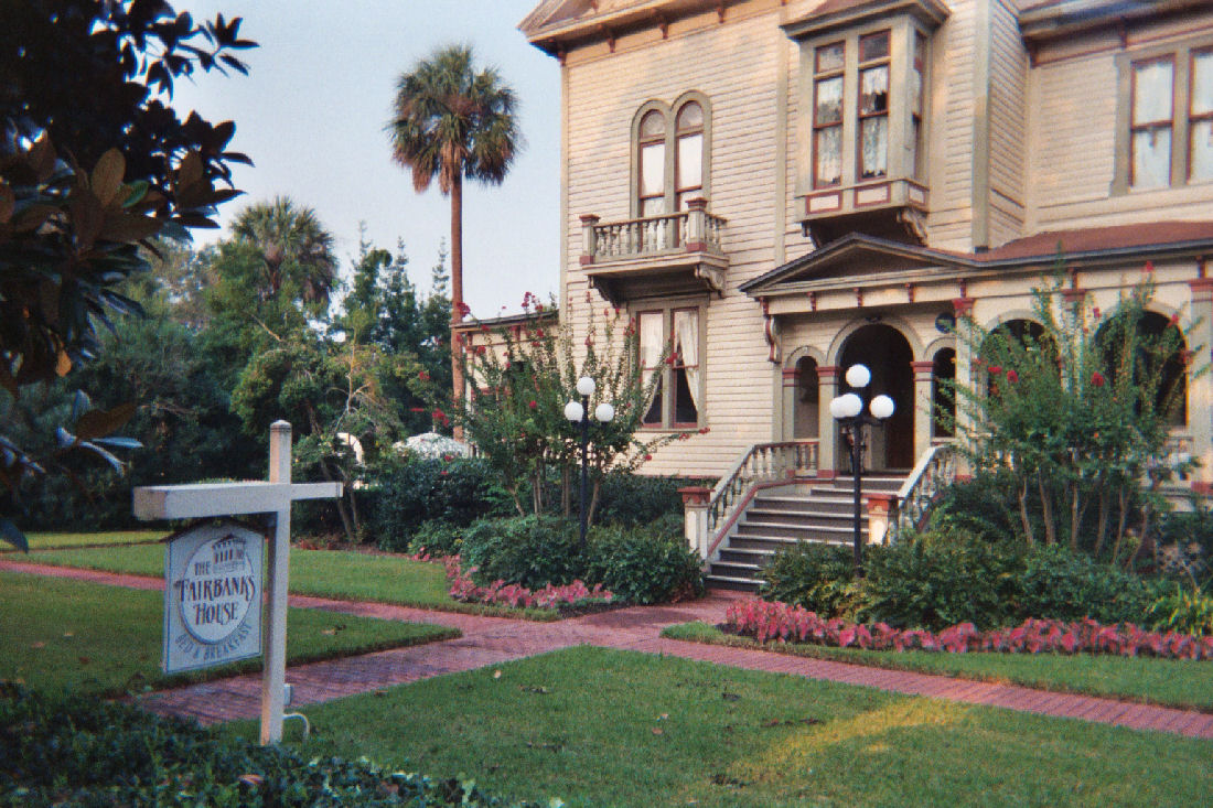 Fernandina Beach, Florida: Fairbanks House